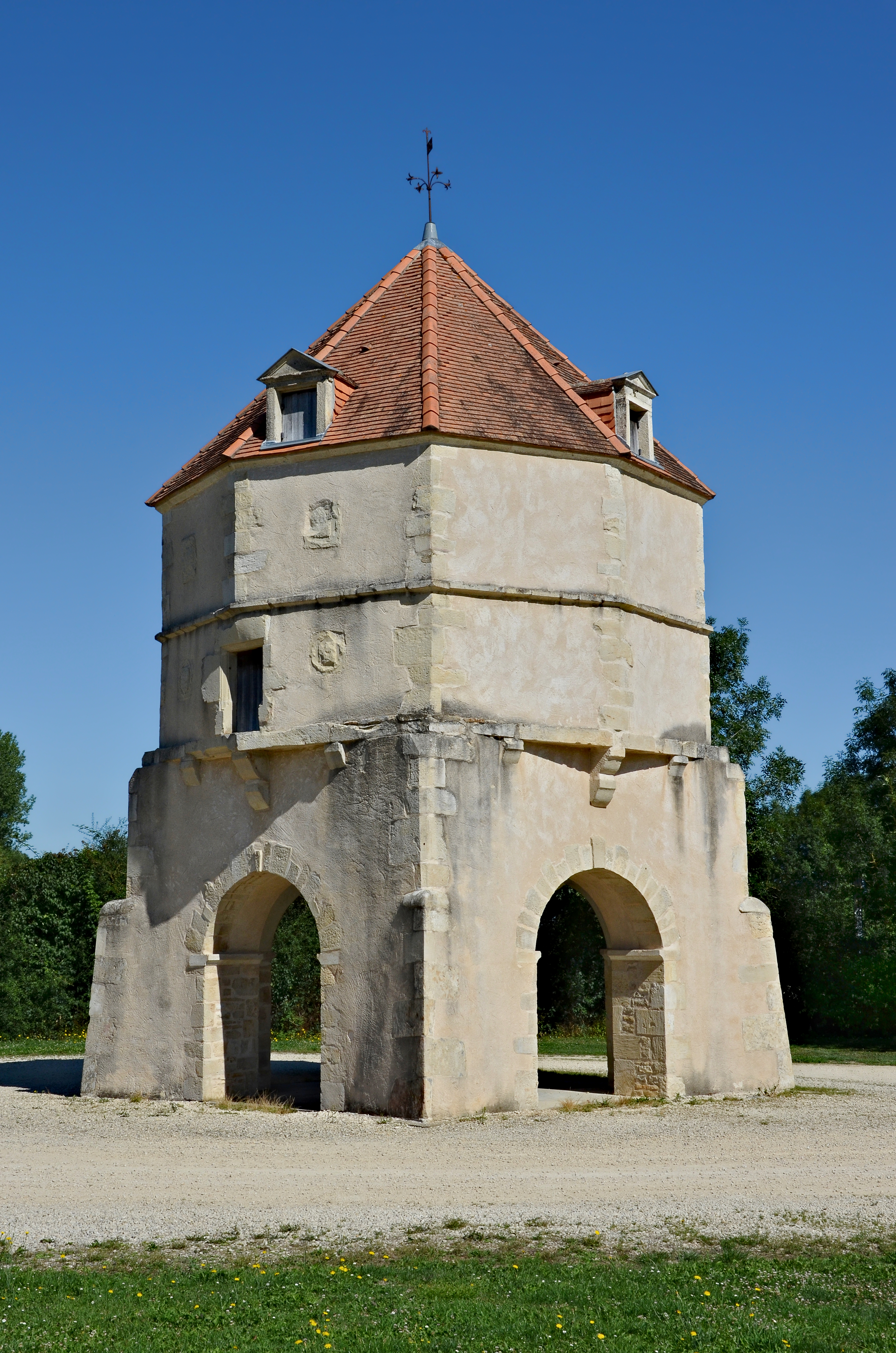 Royal mail dovecote (end of 16th century), Sauzé-Vaussais, Deux-Sèvres, France.